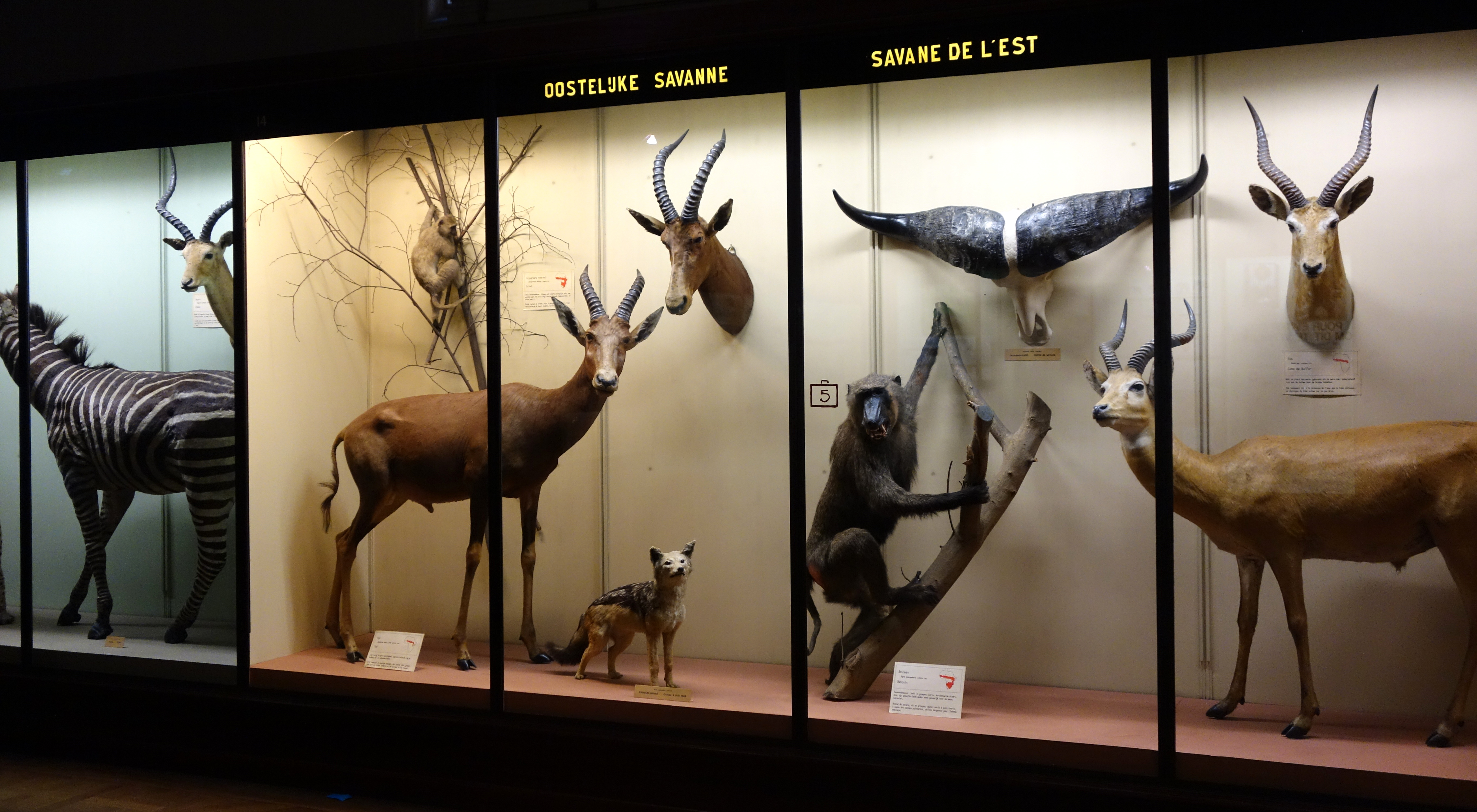 Exhibit in the Royal Museum for Central Africa, Tervuren, Belgium.